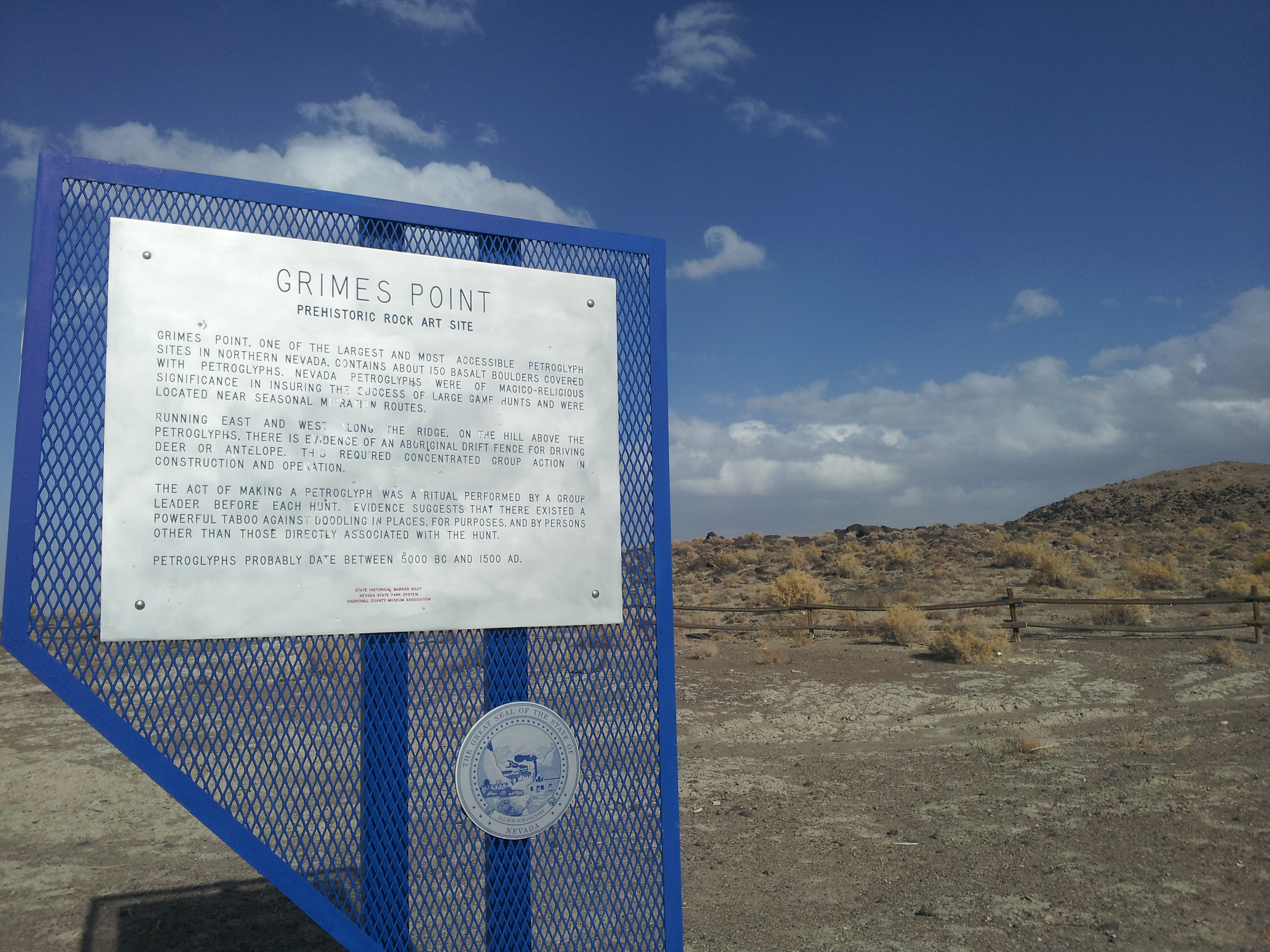 GRIMES POINT PREHISTORIC ROCK ART SITE Grimes point, one of the largest and most accessible petroglyph sites in Northern Nevada, contains about 150 basalt boulders covered with petroglyphs. Nevada petroglyphs were of magico-religious significance in insuring the success of large game hunts and were located near seasonal migration routes. Running east and west along the ridge, on the hill above the petroglyphs, there is evidence of an aboriginal drift fence for driving deer of antelope. This required concentrated group action in construction and operation. The act of making a petroglyph was a ritual performed by a group leader before each hunt. Evidence suggests that there existed a powerfull taboo against doodling in places, for purposes, and by persons other than those directly associated with the hunt. Petroglyphs probably date between 5000 BC and 1500 AD. STATE HISTORICAL MARKER No. 27